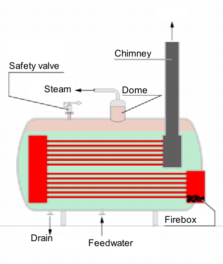 This is a modification of original Image:Steam Boiler 2.png by R. Castelnuovo, released under GFDL license. This permits modifications. Italian captions rendered into English by Old Moonraker. GFDL release as before The factual accuracy of this description or the file name is disputed. Reason: There are no fire-tube boilers of this form. The nearest would be the Scotch marine boiler, but that has a large diameter furnace leading to the combustion chamber, rather than the (lower) tube bank of many small-diameter tubes. This boiler could not be built, not could it be maintained (without some access to that leftmost combustion chamber. Also the boiler is drawn with domed ends. Although such a boiler could be built today, it would be impractical with the flanging presses available in period. Instead boilers were built with flat ends and stayed to support them. Andy Dingley (talk) 11:33, 23 July 2010 (UTC)